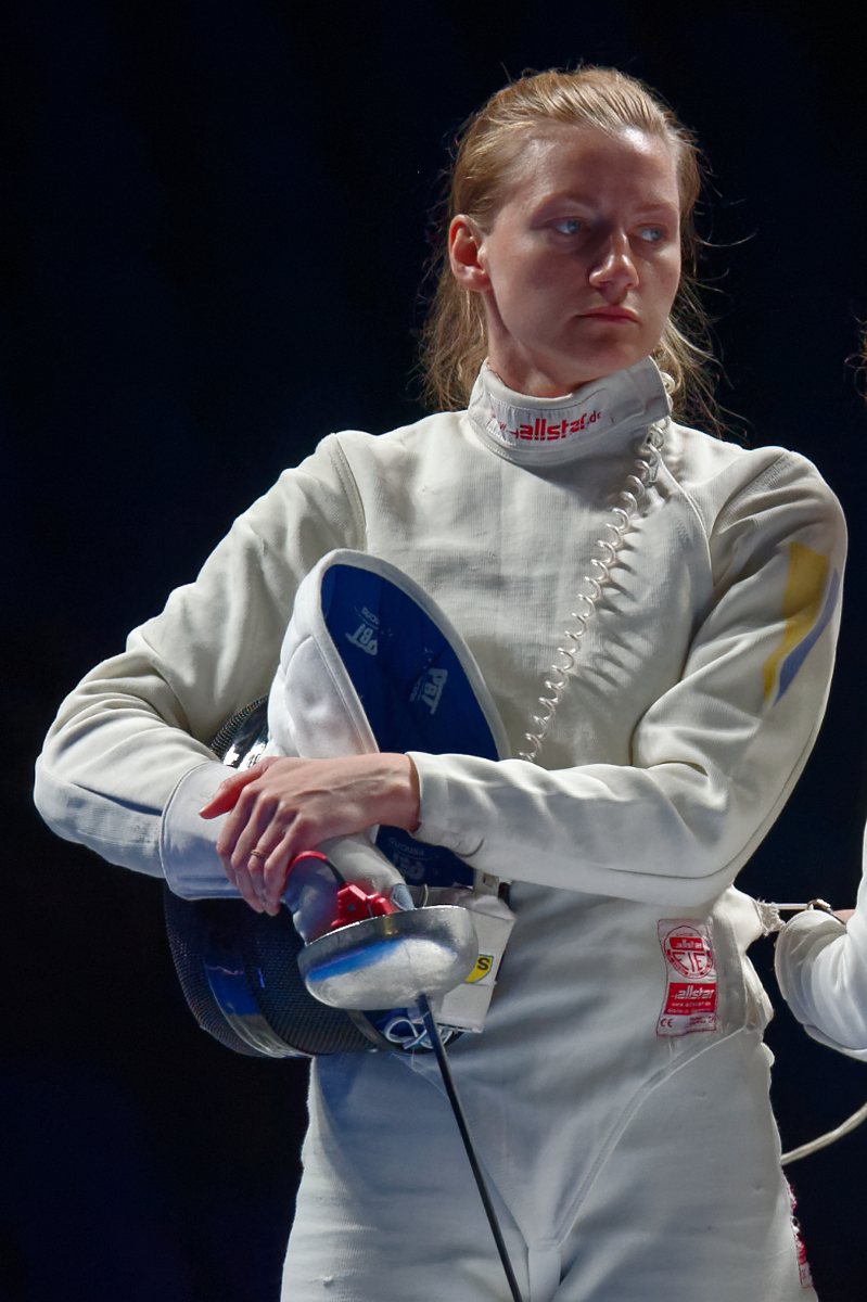 Ukraine's Olena Kryvytska during the match for the bronze medal at the 2015 World Fencing Championships on 18 July 2014 at the Olympic Stadium in Moscow.